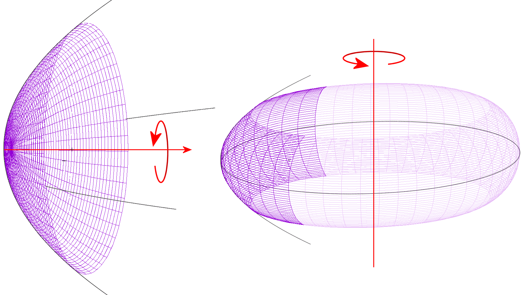 difference between double curved parabolic reflector and single curved torus antenna